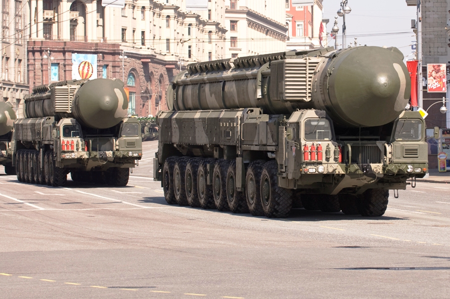 A Russian Topol-M ICBM during the Victory parade 2010.